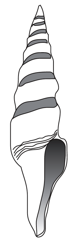 Drawing of apertural view of the shell of Fusiturris similis.